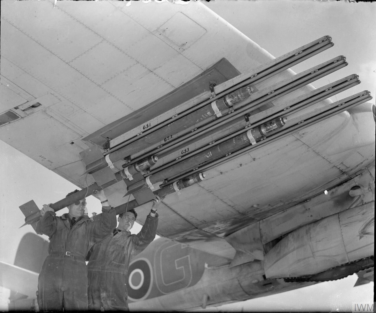 Royal Air Force Coastal Command, 1939-1945. Armourers attaching 3-inch rocket projectiles fitted with 60-lb warheads to the starboard wing rails of a Bristol Beaufighter TF Mark X of No. 404 Squadron RCAF at Davidstow Moor, Cornwall.